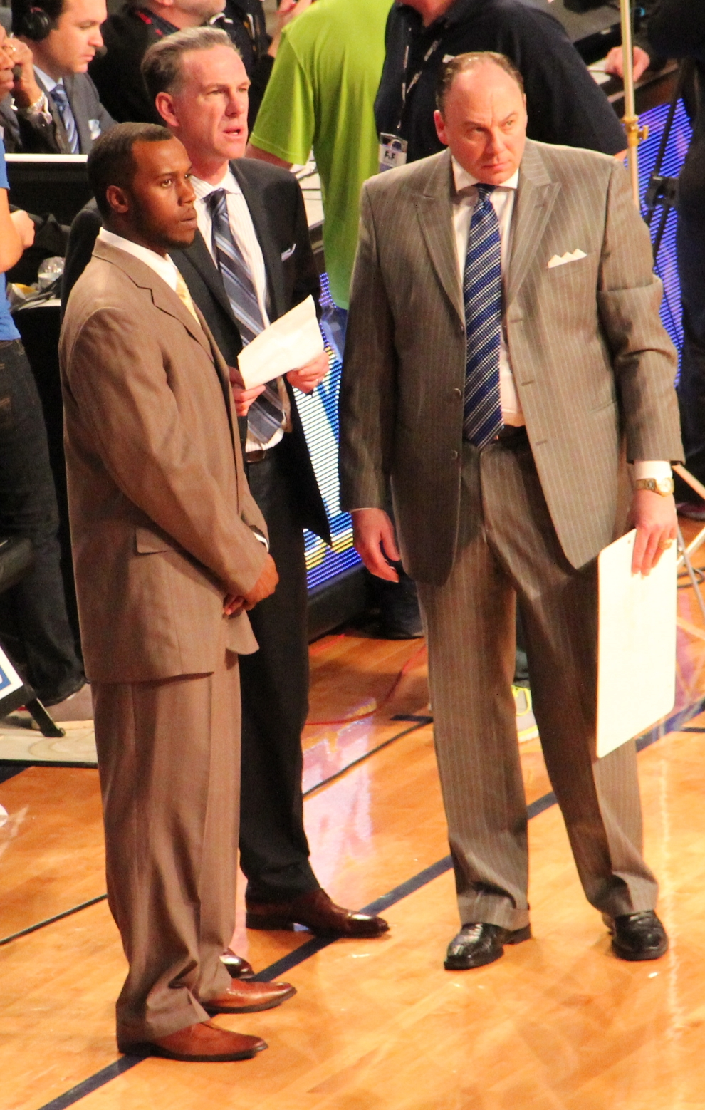 Jamie Dixon with assistant coaches, 2014